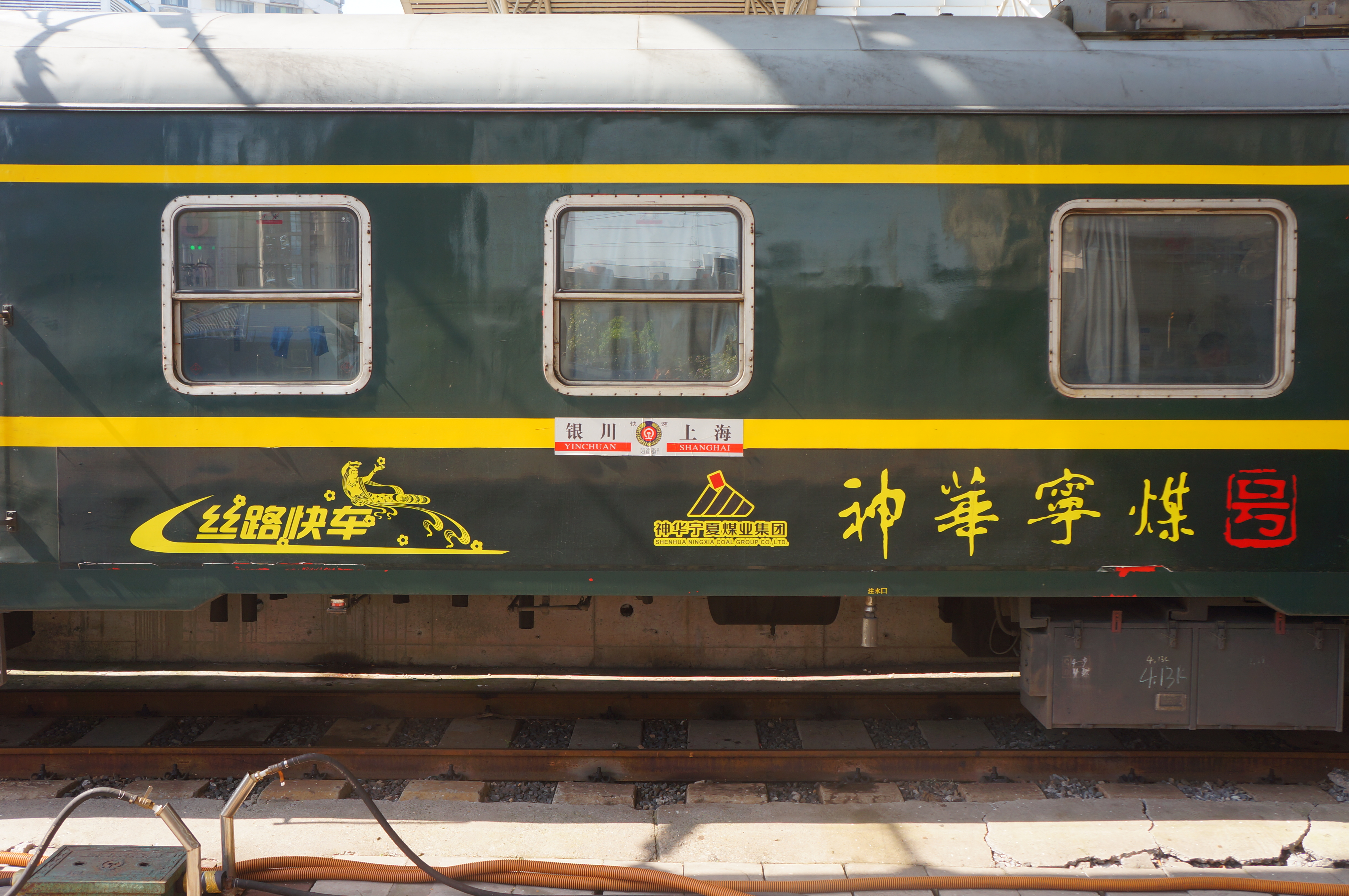 K359 60 61 62 info board in 201704, with the adv of Shenhua Corp